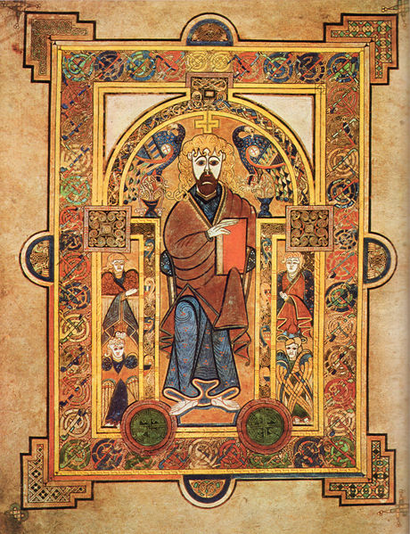 Book of Kells.